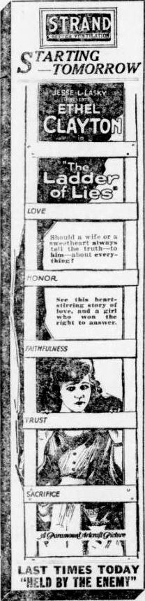 Newspaper advertisement for the American drama film The Ladder of Lies (1920) with Ethel Clayton, on page 13 of the November 17, 1920 The Duluth Herald.